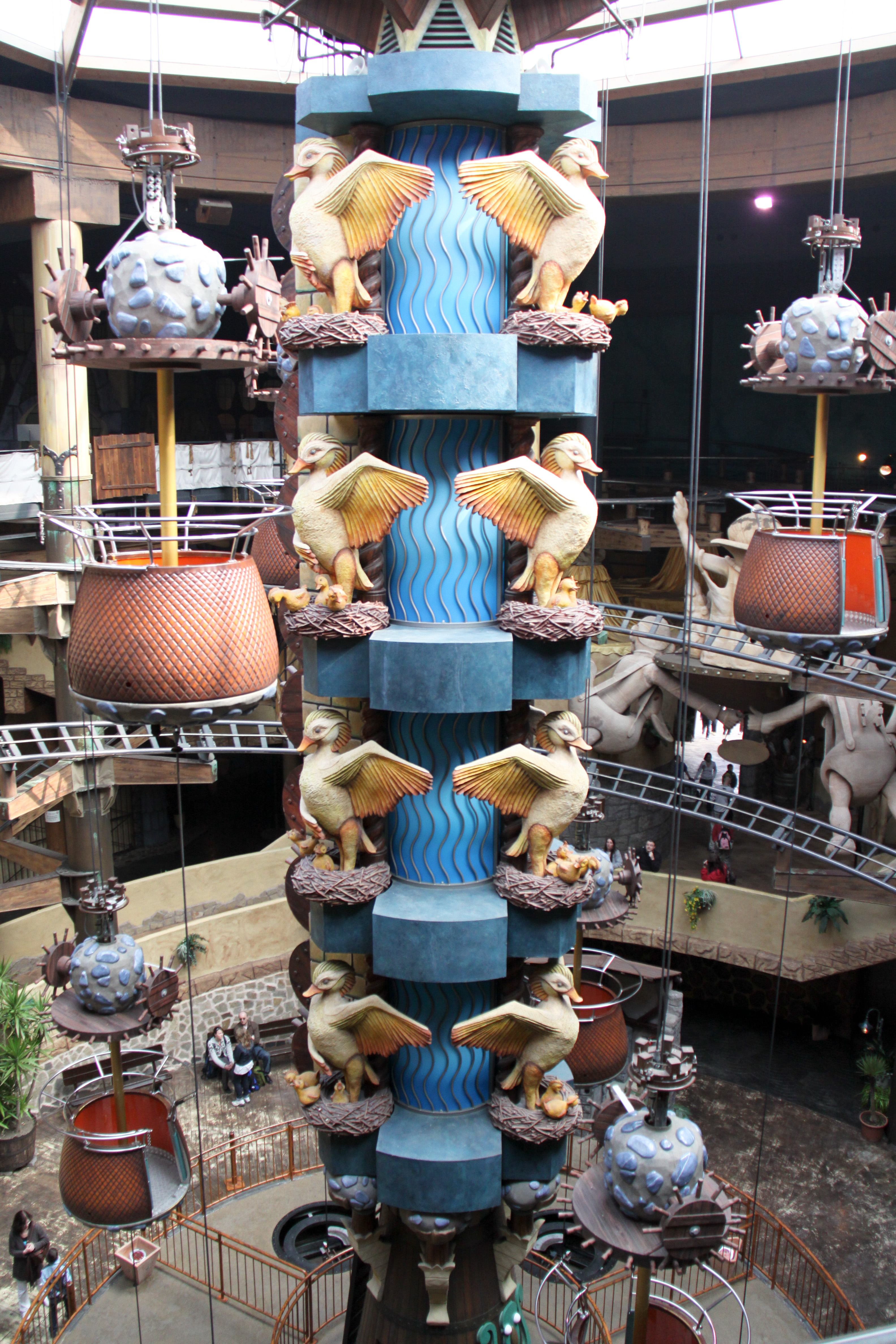 "Tittle Tattle Tree" at Phantasialand